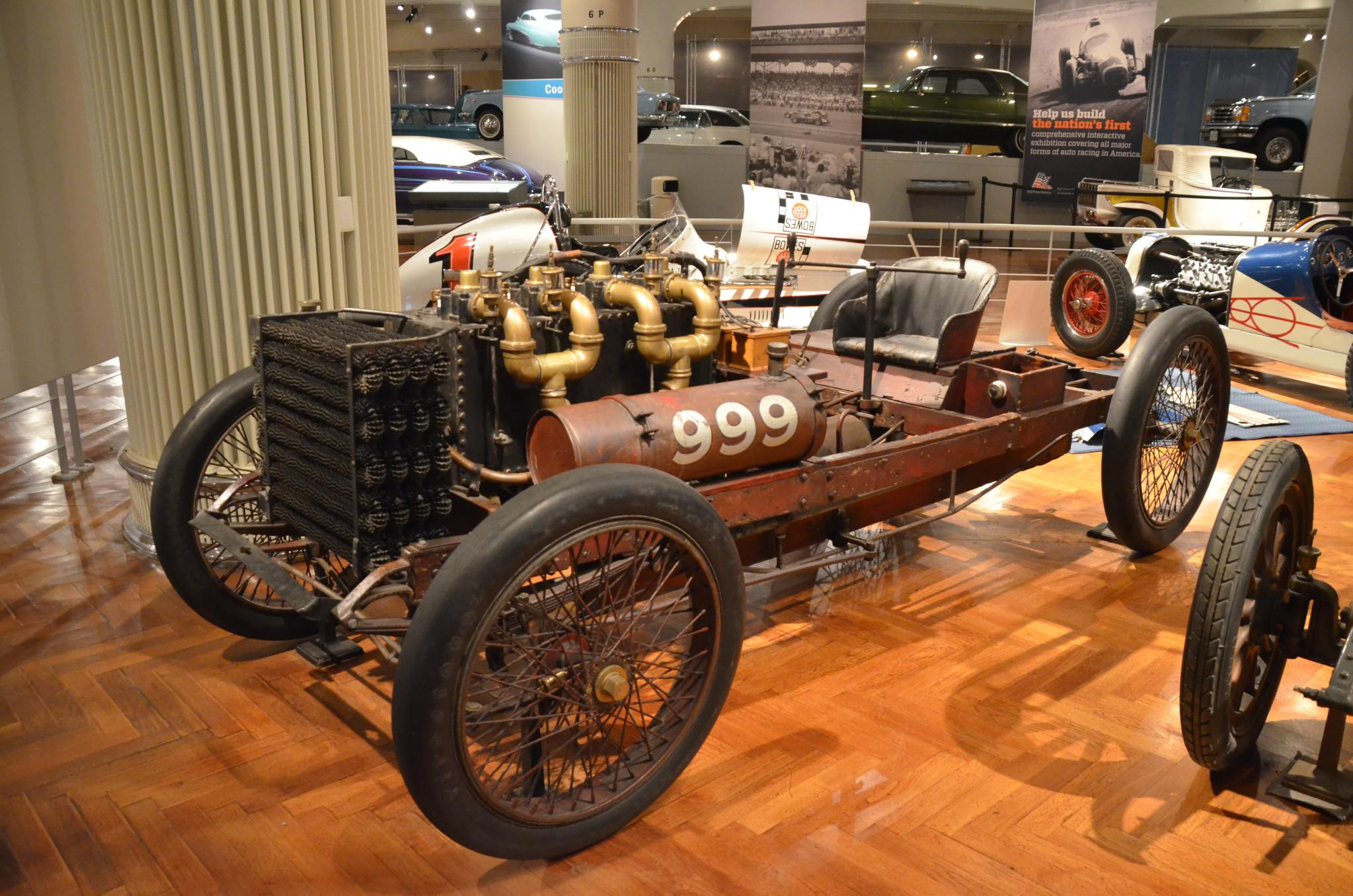 For about 6 weeks in January and February, the Henry Ford museum in Dearborn, Michigan opens the hoods on about 50 of it's iconic vehicles. Here is a photo of one of the vehicles on display.